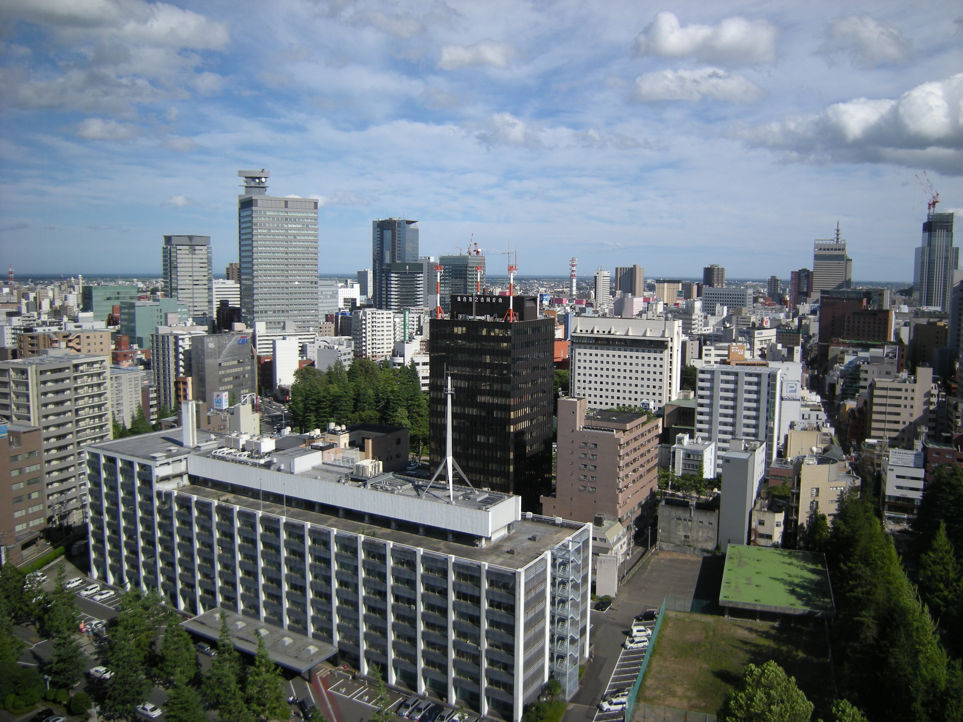 A South East view from the 18th floor of Miyagi prefectual office building, in Sendai city, Miyagi, Japan.